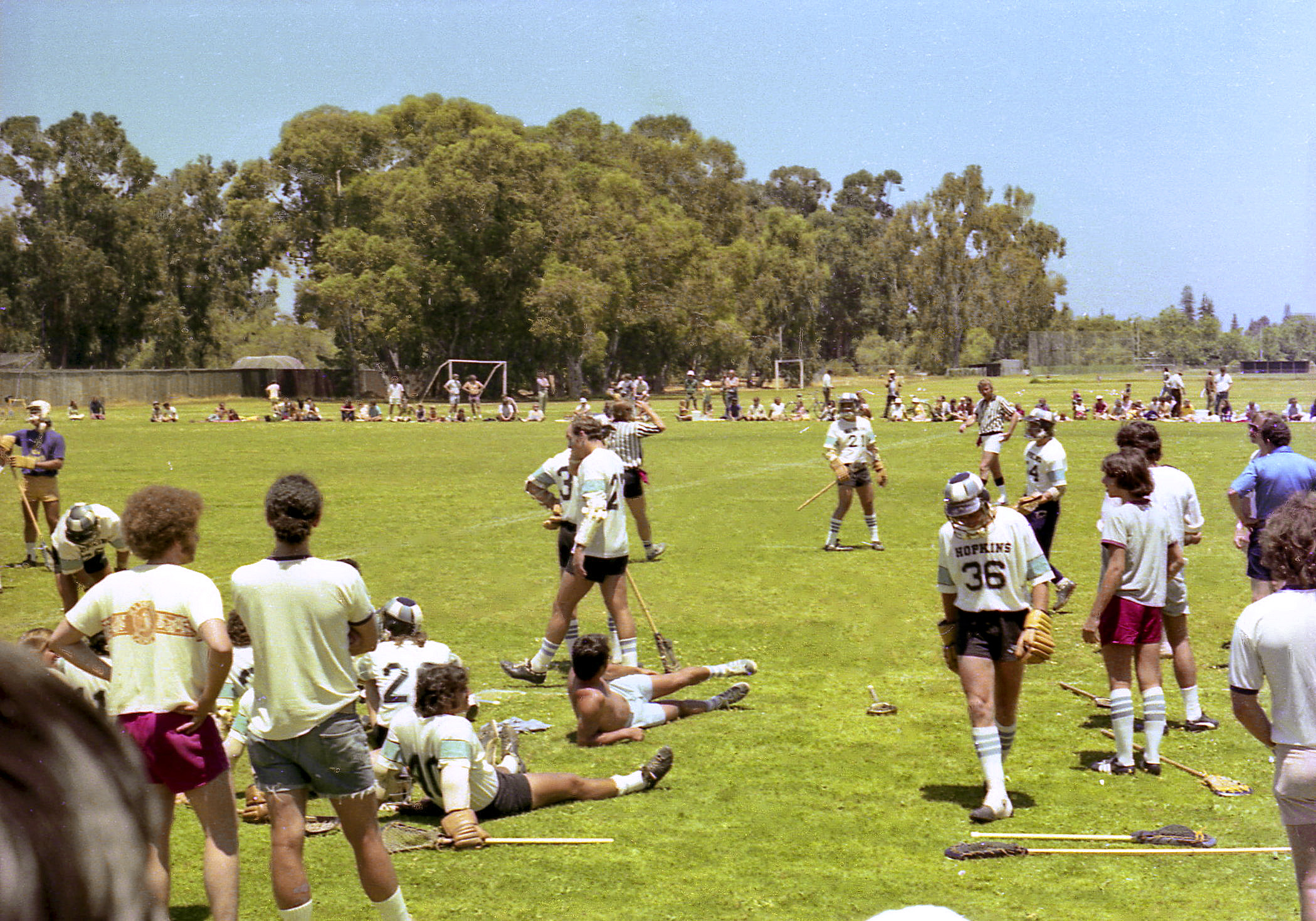 The Johns Hopkins Blue Jays men's lacrosse team in 1974 in Northern California. Having just won the NCAA championship, they were there on a good will tour of the west coast with stops in Los Angeles, San Francisco and Monterey.